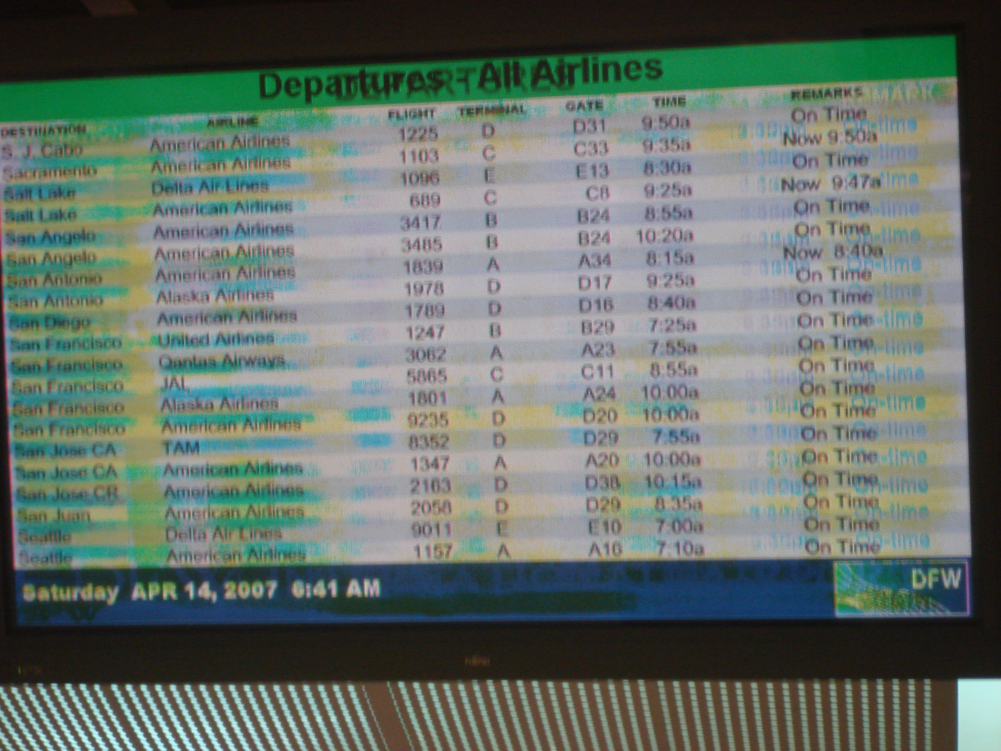 I took this photo of a heavily burned-in plasma display at Dallas Fort-Worth airport.